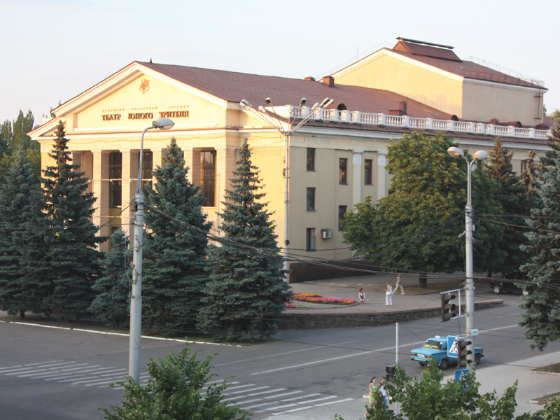 bgrty